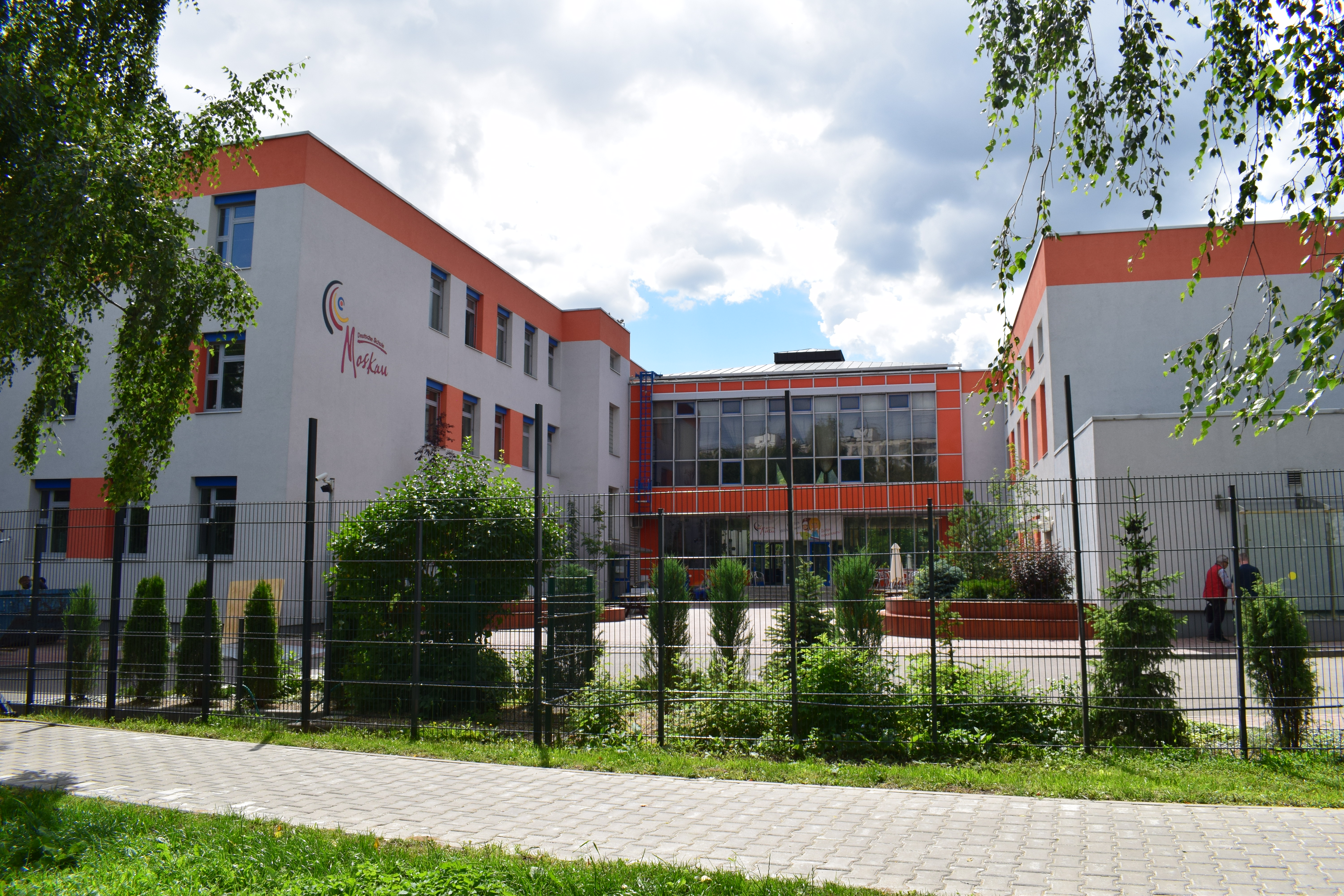 German School Moscow a.k.a. the Fedor Gaaz School.